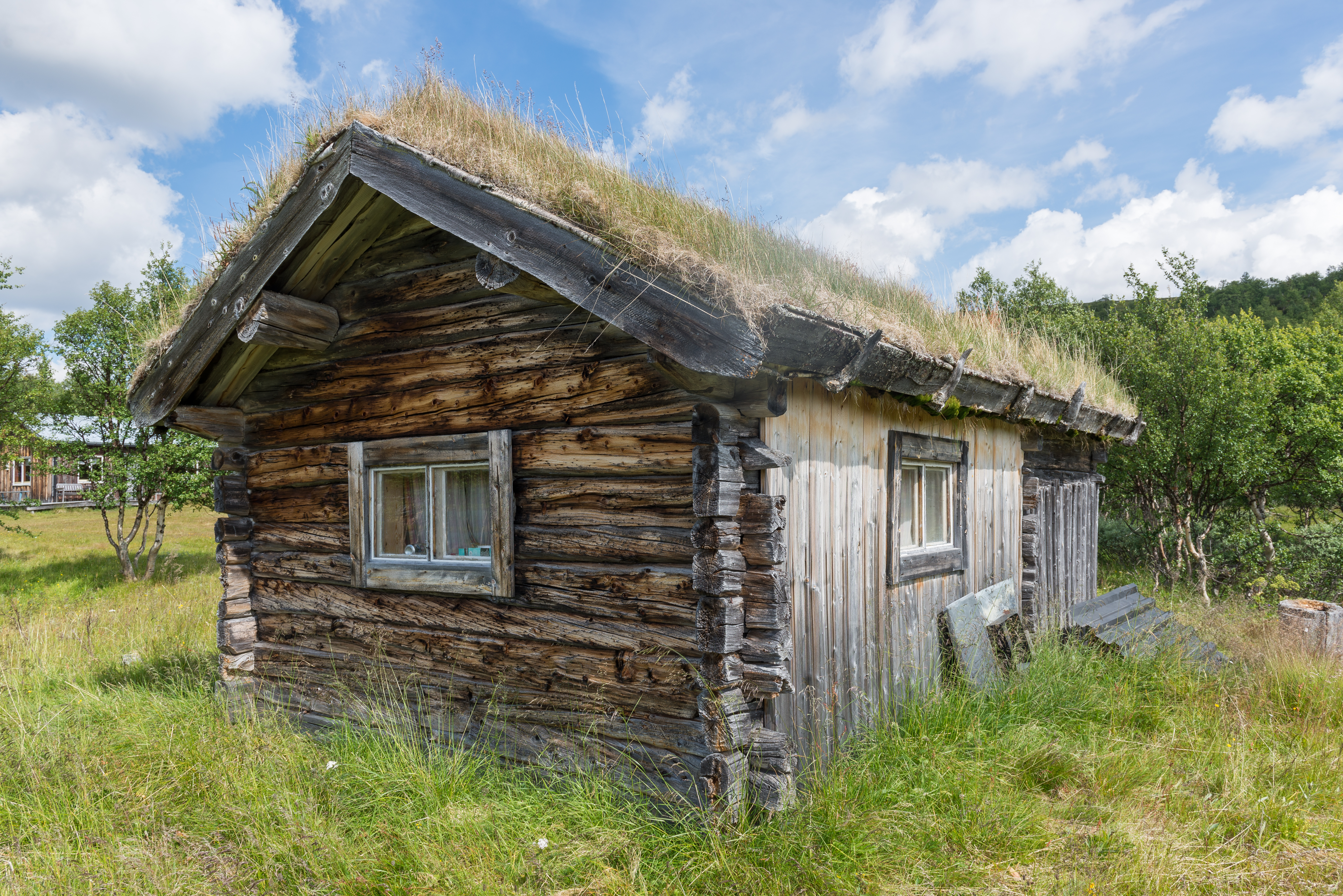 Building in Ljungris.